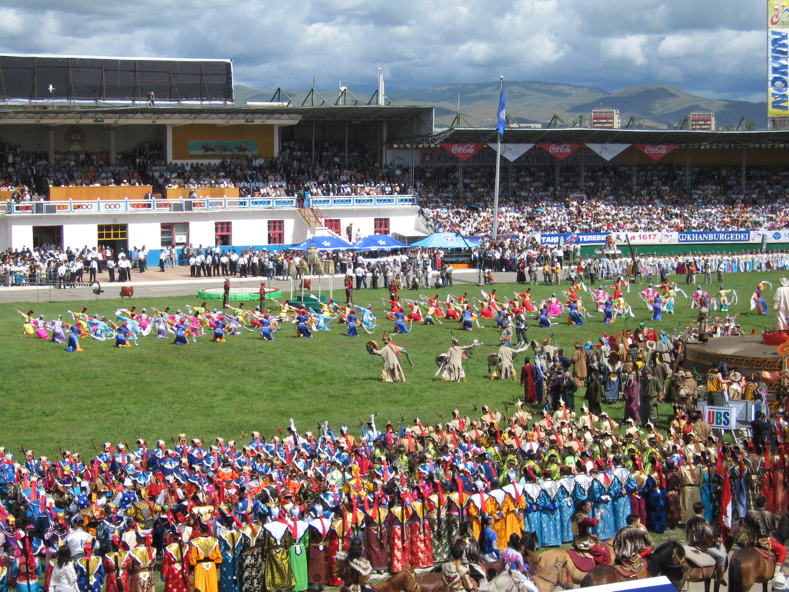 Naadam ceremony, Ulan Bator, Mongolia, 11 July 2006.